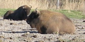 Wisent. Eigen foto. GerardM 21 feb 2004 19:28 (CET)